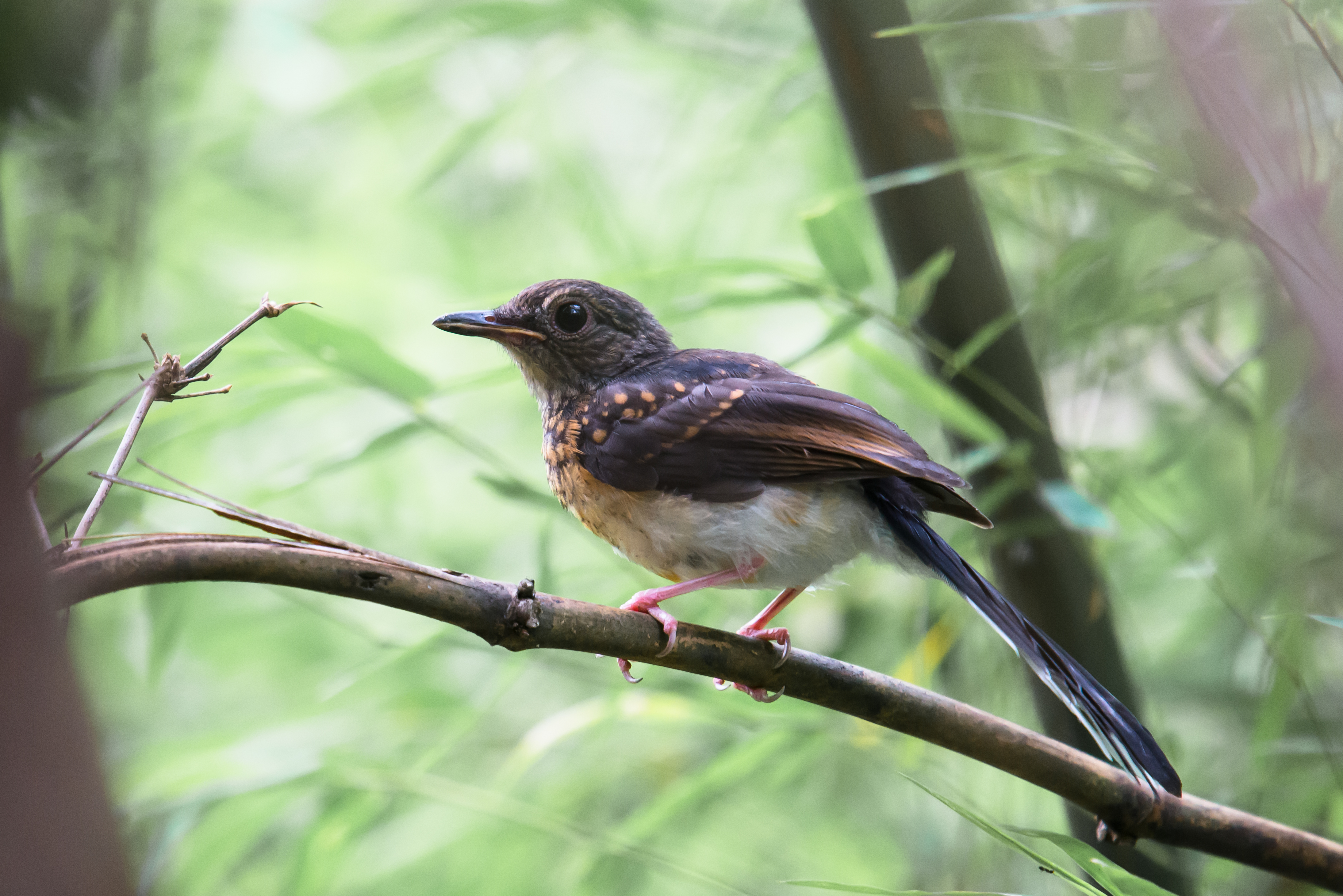 Huai Kha Khaeng Wildlife Sanctuary This photo is published under Creative Commons Attribution-Share-Alike Licence, means you are free to use this photo with attribution under same licence. When giving attribution, please use following; Owner: Thai National Parks Link